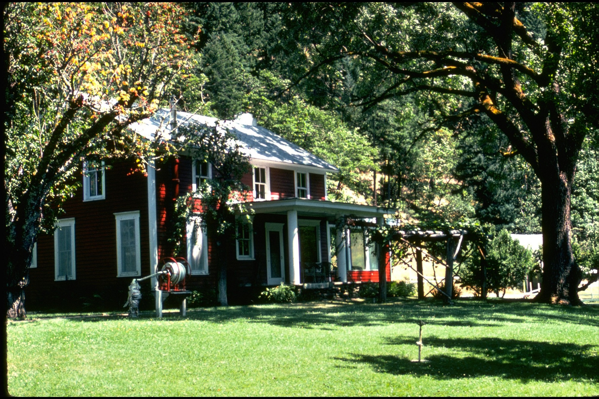 Front view of Rogue River Ranch main house (built in 1903); located on the north shore of the Rogue River at the mouth of Mule Creek in Curry County, Oregon